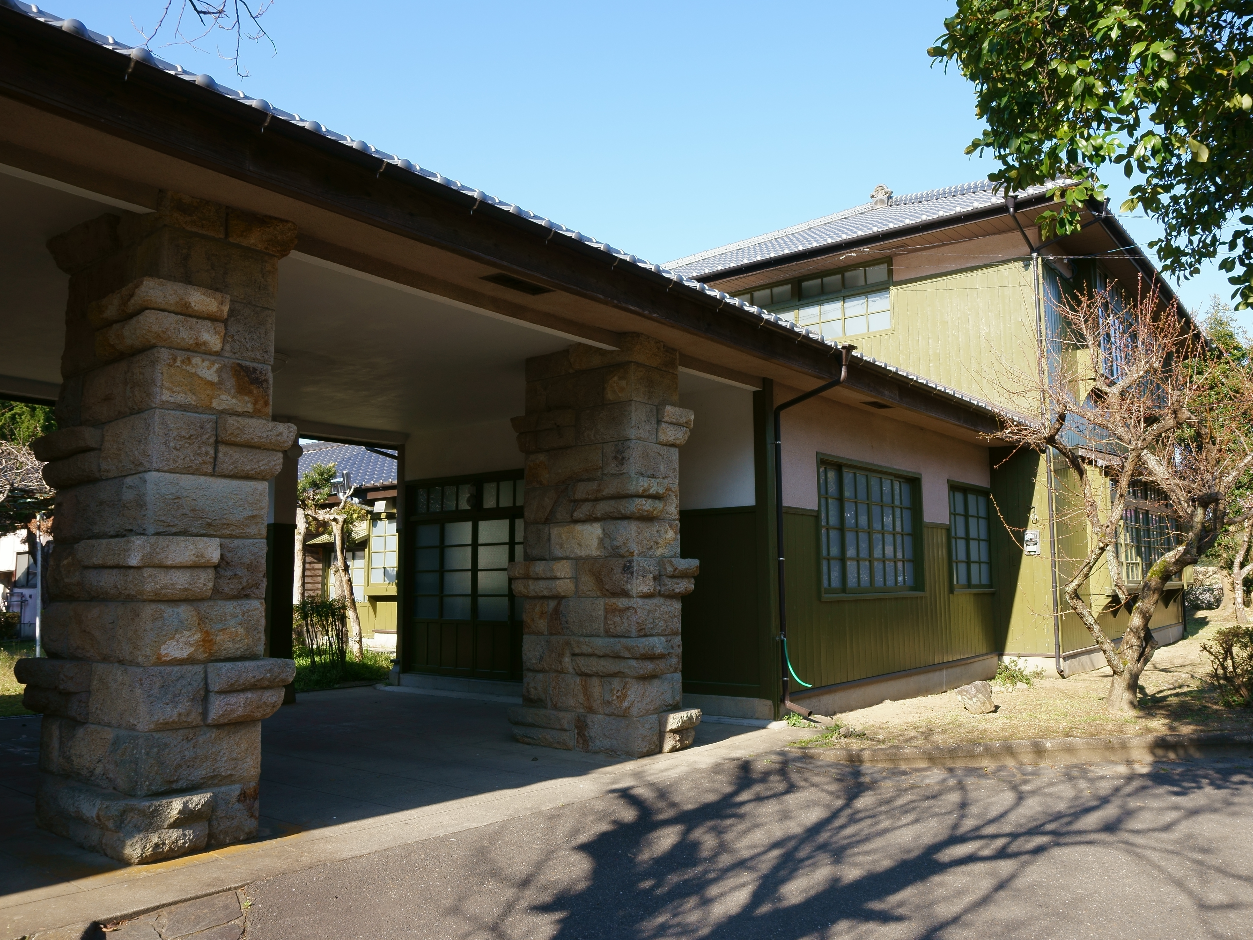 The entrance and a lodgment of Joranjuku academy in Takeo city, Saga prefecture.